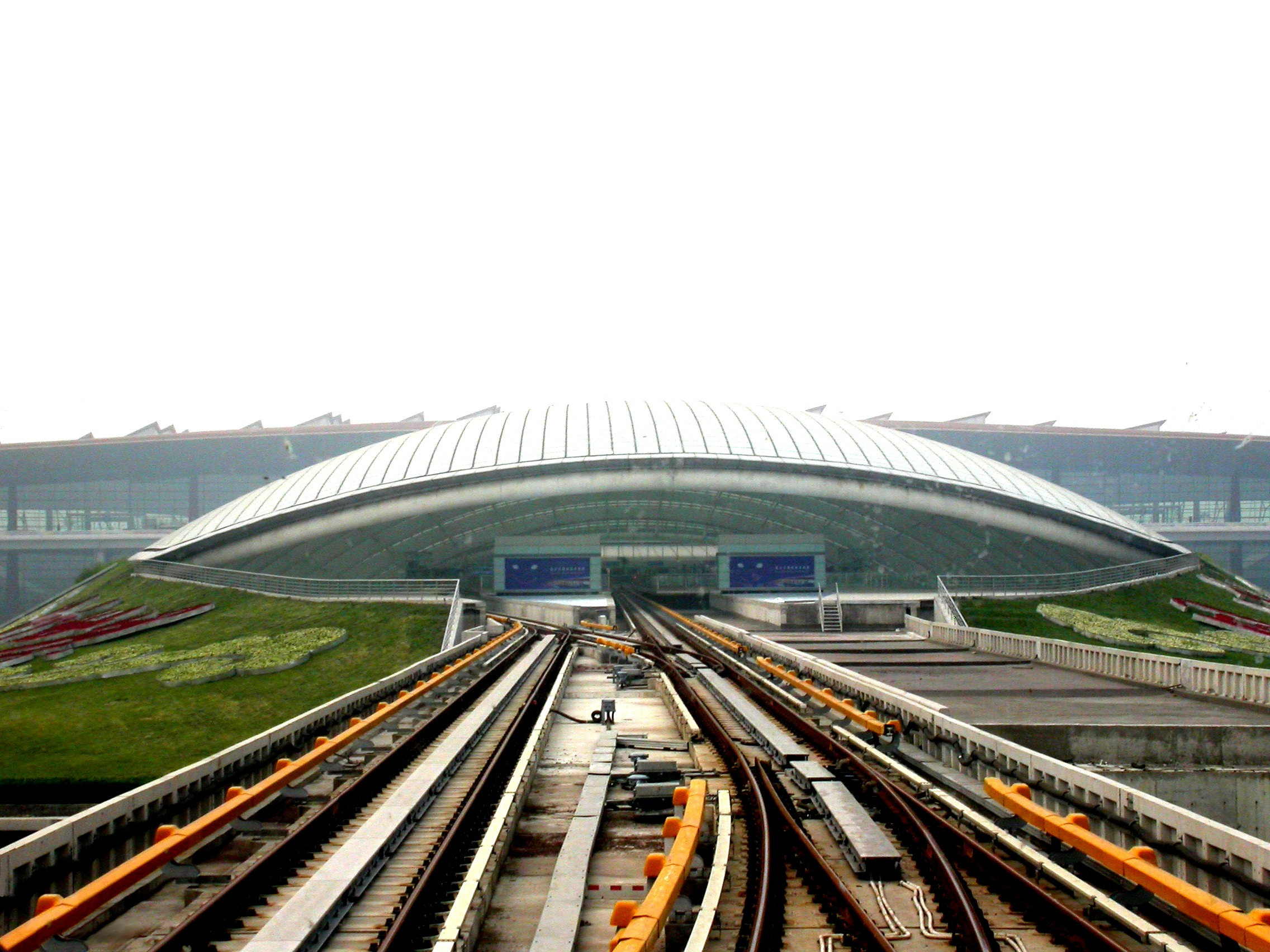 The station of Terminal 3 of Capital Airport, Airport Line, Beijing Subway 中文（中国大陆）: 机场快线3号航站楼站外观